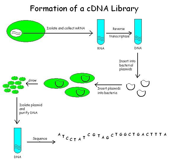 A picture my friend created, he let me use it.